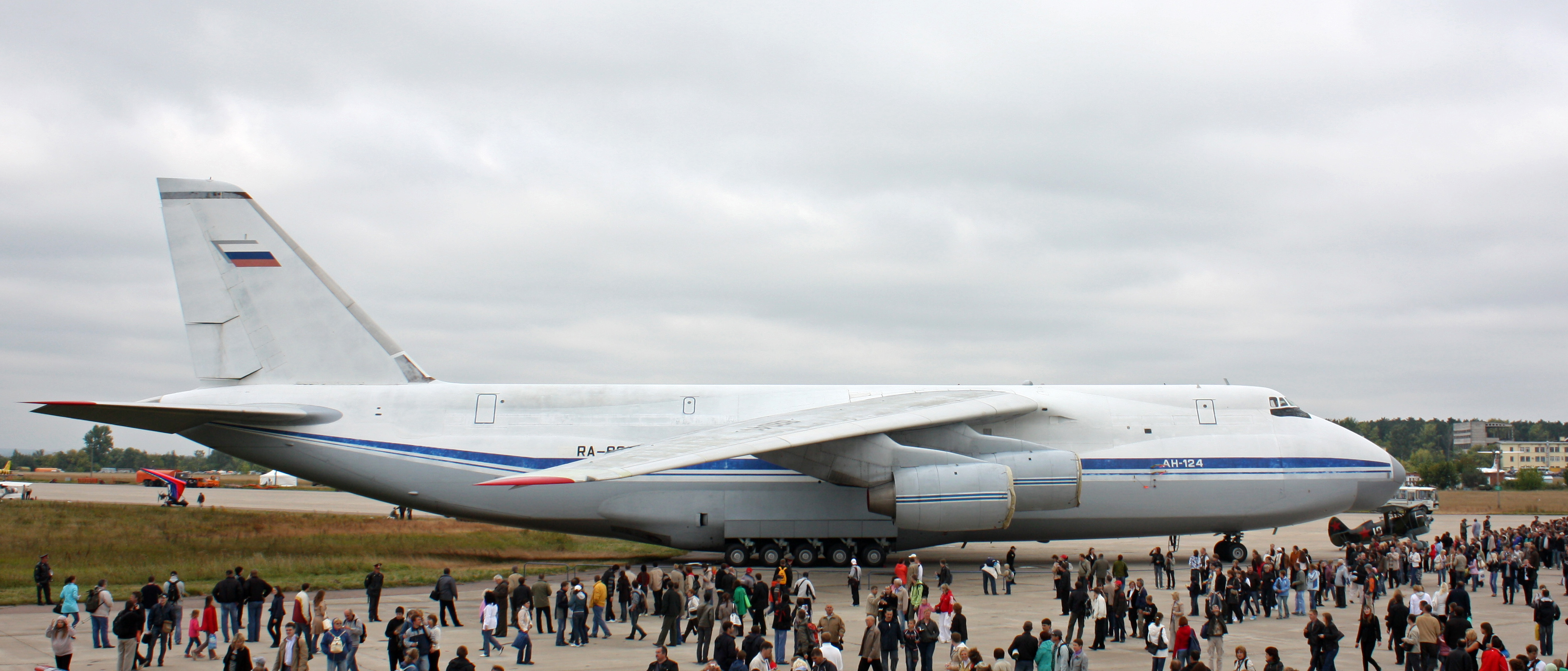 Antonov An-124 "Ruslan" (The international aerospace salon MAKS-2009)